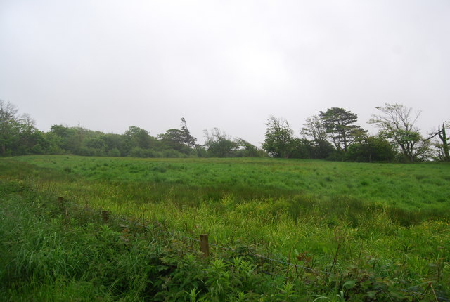 Glannoventa Roman Fort, Ravenglass Slight lumps & bumps in this field are all that remain of what would have been a port facility on the estuary of the River Esk.